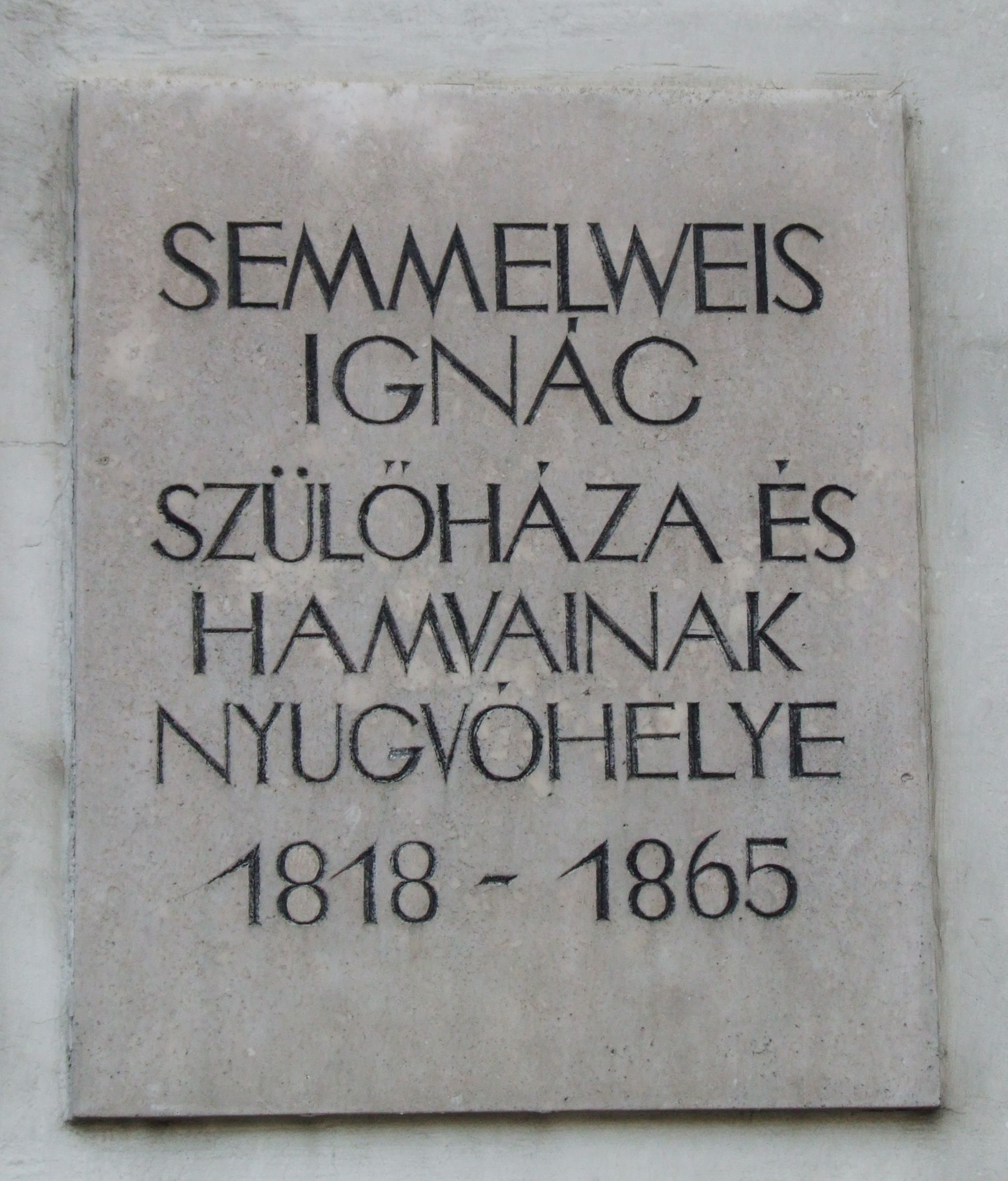 Plaque of Ignác Semmelweis on his birthplace (now the Semmelweis Museum of Medical History) - 1-3 Apród utca, District I., Budapest, Hungary.